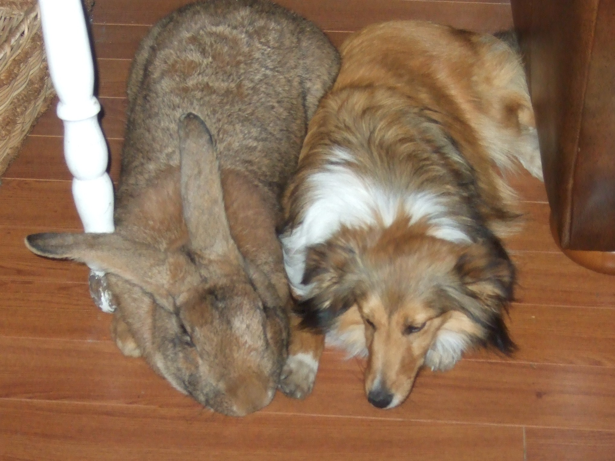 A sandy Flemish Giant male napping beside a sable-and-white Shetland Sheepdog